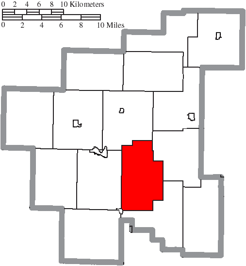 Map of the municipal and township boundaries of Noble County, Ohio, United States, as of the 2000 census, with the location of Enoch Township highlighted. Township borders are shown only in unincorporated areas in order to differentiate incorporated and unincorporated areas more clearly.